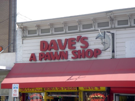 Self made Photo of Cornice above the Montgomery Building of El Paso. All rights released.